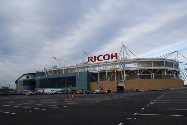 The Ricoh Arena, Coventry This stadium looks almost identical from any direction.